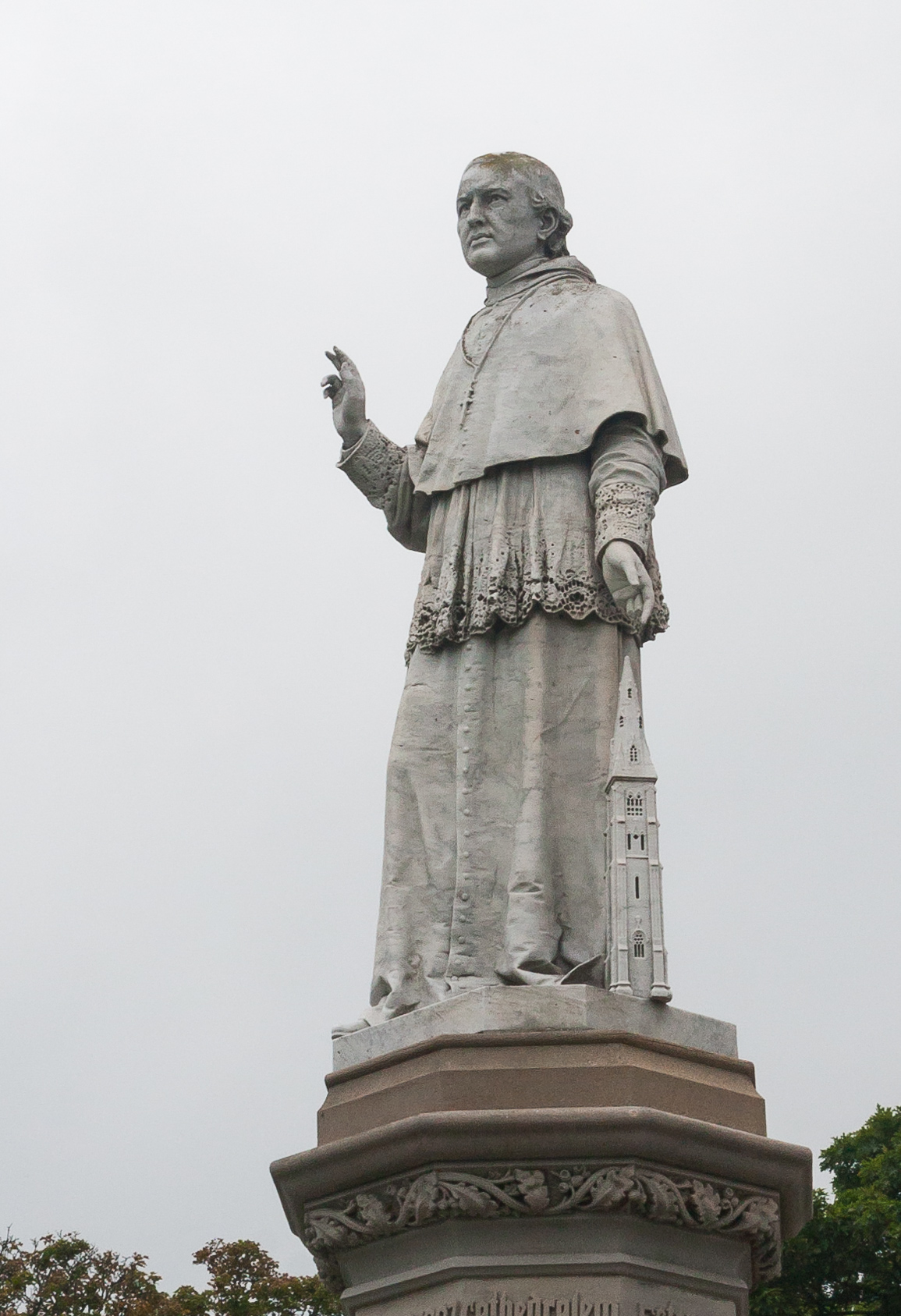 Close view of the statue of Daniel McGettigan, archbishop of Armagh from 1870 to 1887, with a model of the tower in front of the cathedral, created by the sculptor Pietro Lazzerini c. 1904. (See Kevin V. Mulligan, The Buildings of Ireland: South Ulster, p. 111.)